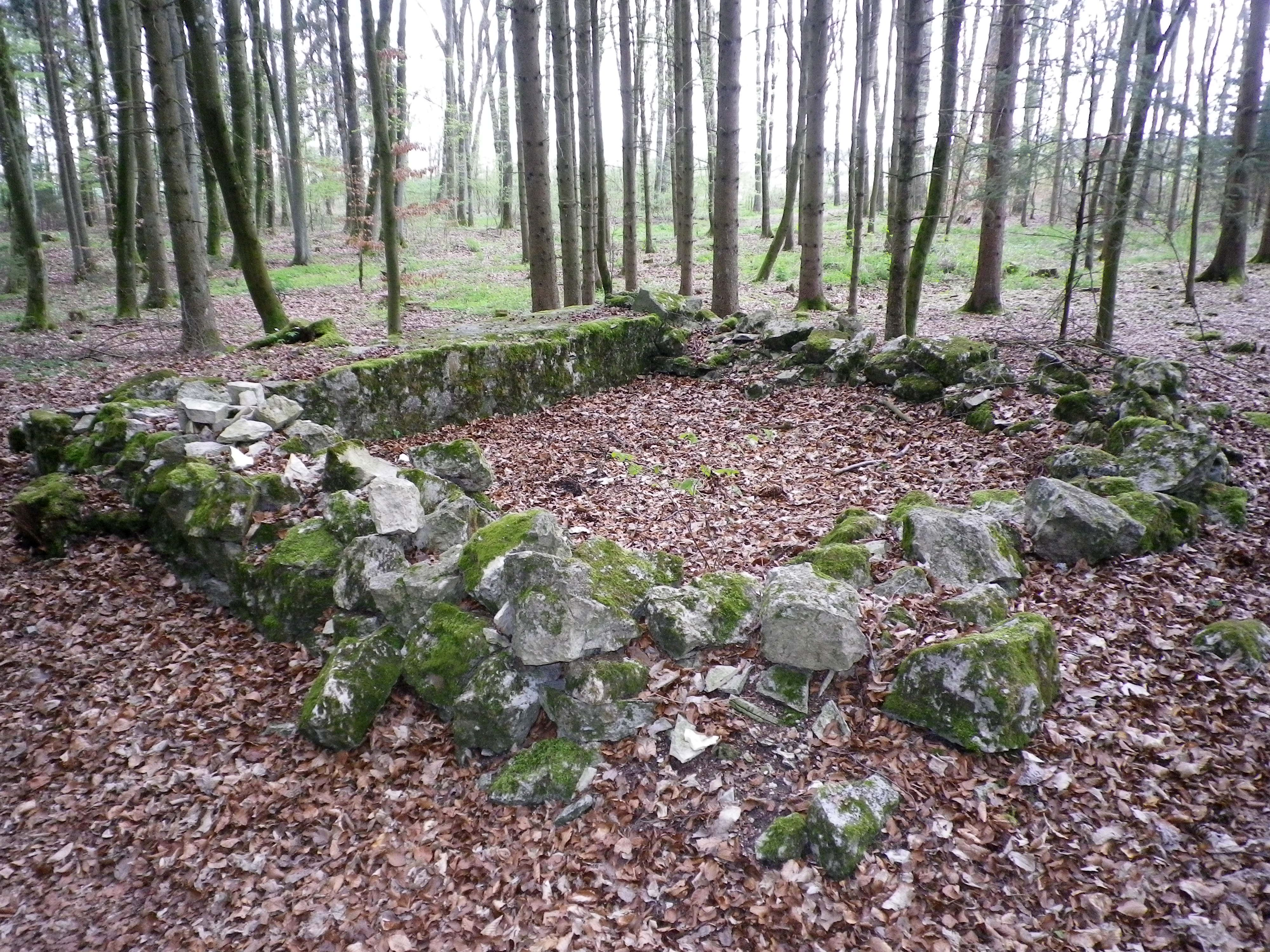 Foundation of the Roman Limes Watch Tower Wp 15/44 in Hienheimer Forst